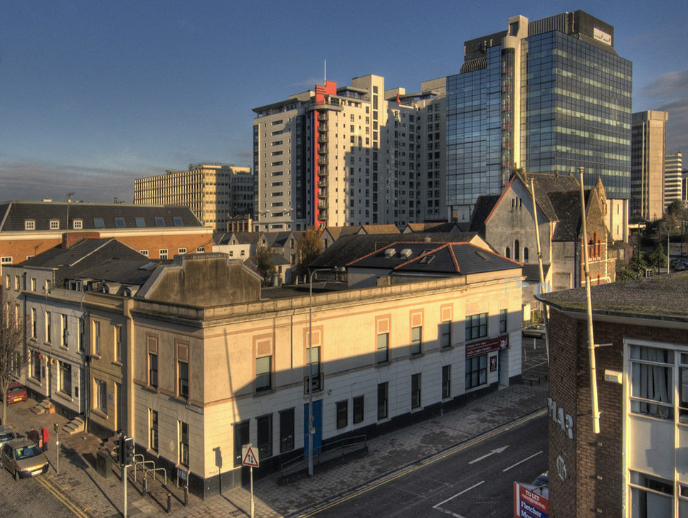 71 and 71a Bridge Street on the junction of Bridge St and Charles Street Cardiff. Now demolished to make way for Bridge Street Exchange